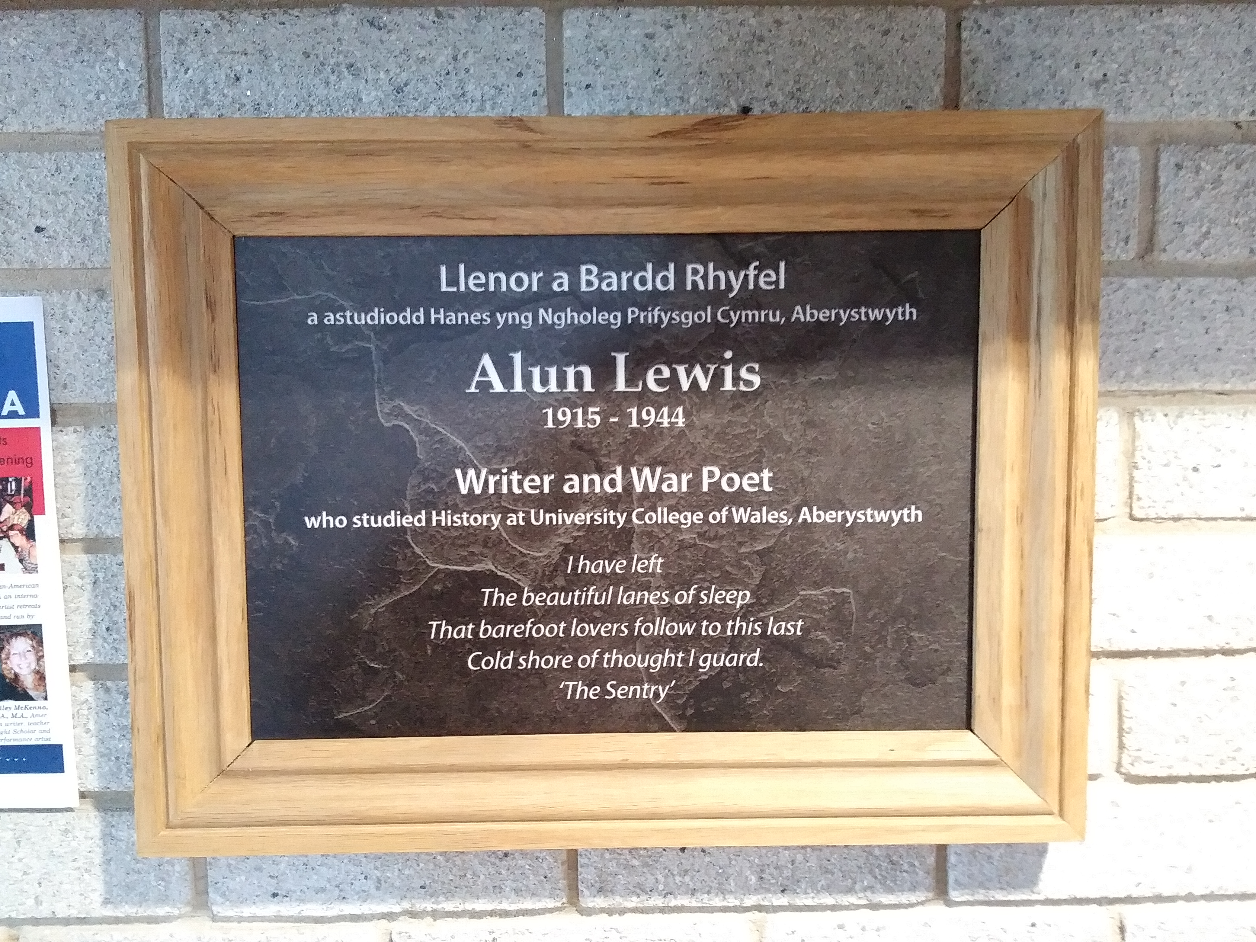 Alun Lewis, poet, plaque, Aberystwyth University Аҧсшәа: Alun Lewis, bardd, plac Prifysgol Aberystwyth